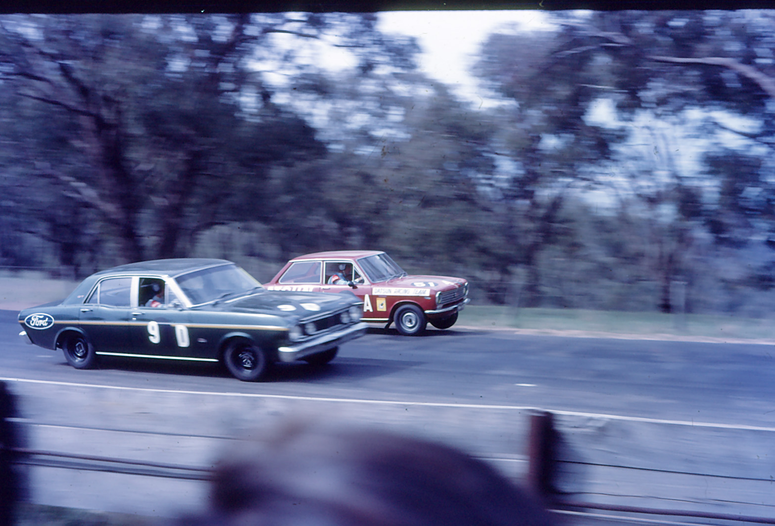 Barry Seton (Ford XT Falcon GT) at Sulman Park in the 1968 Hardie-Ferodo 500 at Bathurst on 6 October 1968